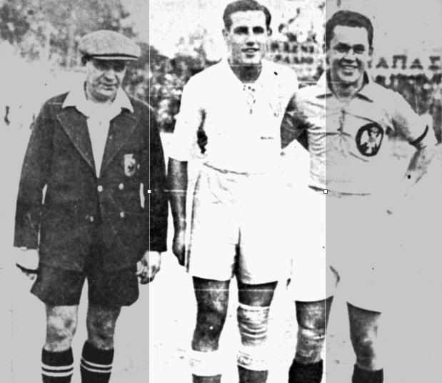 Leonidas Andrianopoulos, football player of Olympiakos FC (middle) and Greek National team, photo taken on 1935.